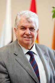 Investigador en el campo de la musicología y etnomusicología